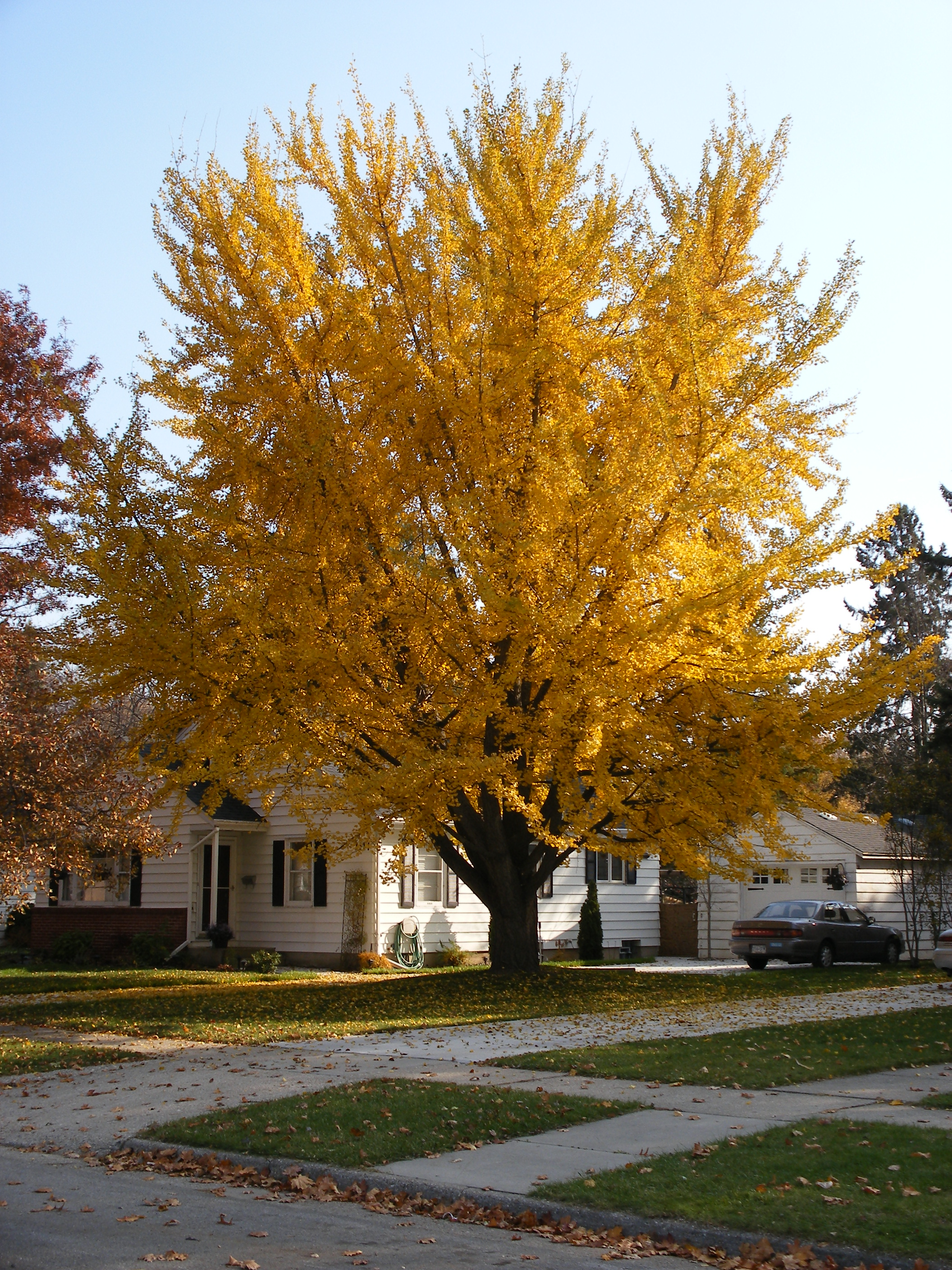 Female Ginkgo Biloba in November 2008 (Janesville, WI) A local arborist has estimated this tree to be about 150 years old.